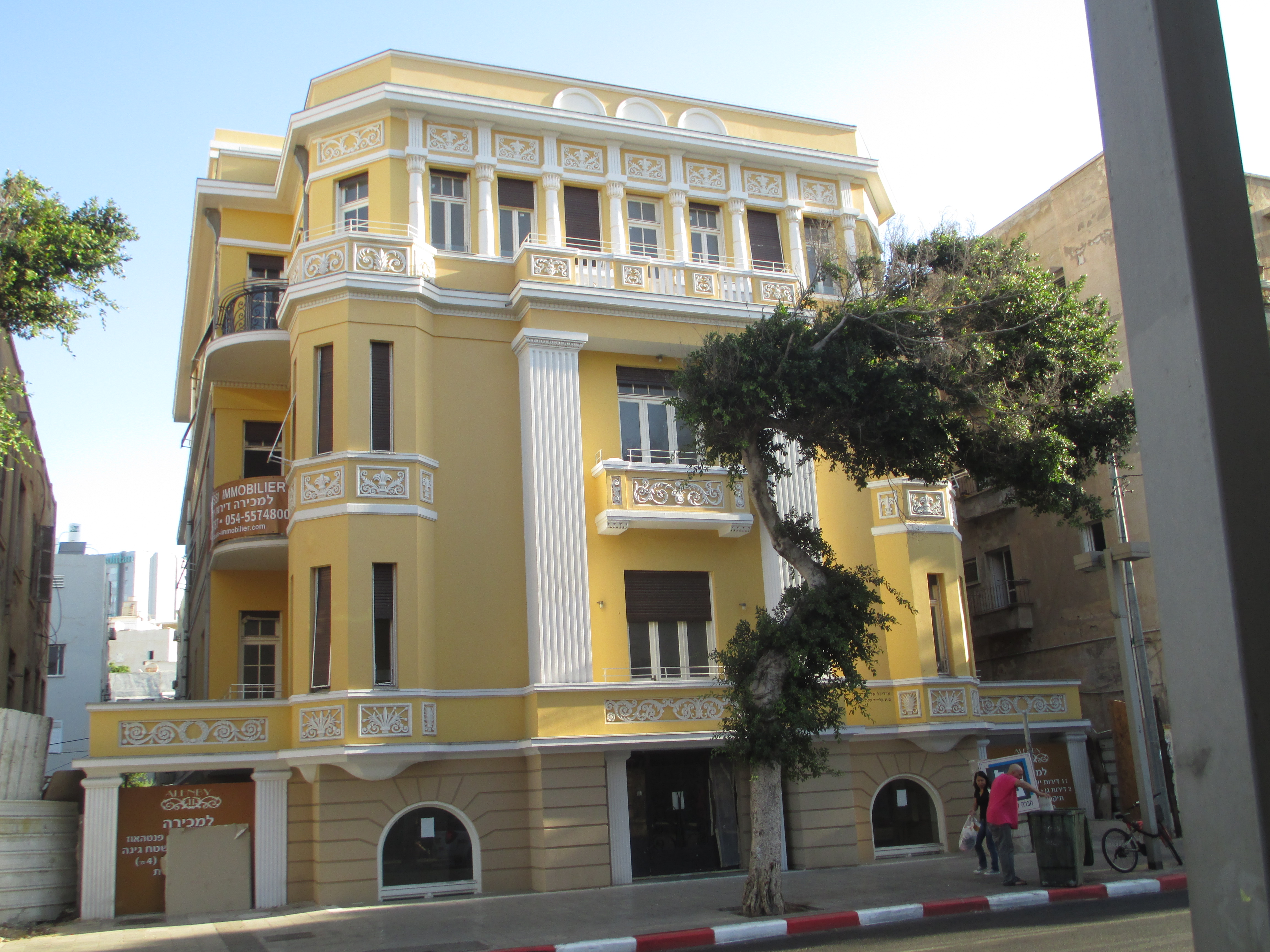 Kleiner house in Tel Aviv